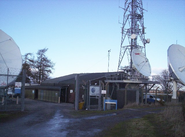 Cable and Wireless Telecommunication Centre.